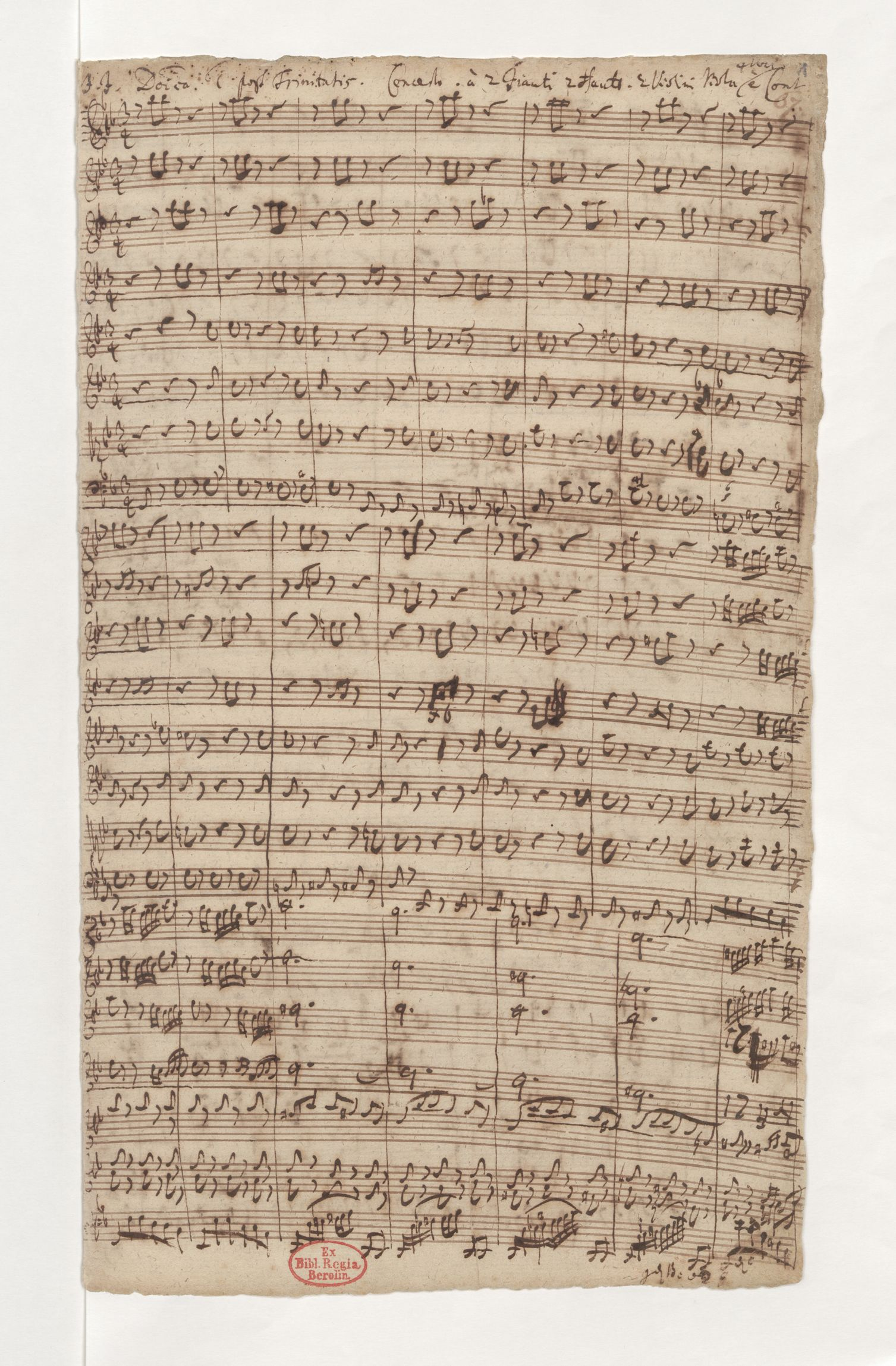 Opening orchestral sinfonia or "concerto" from the autograph score of the cantata Brich dem Hungrigen dein Brot in high resolution